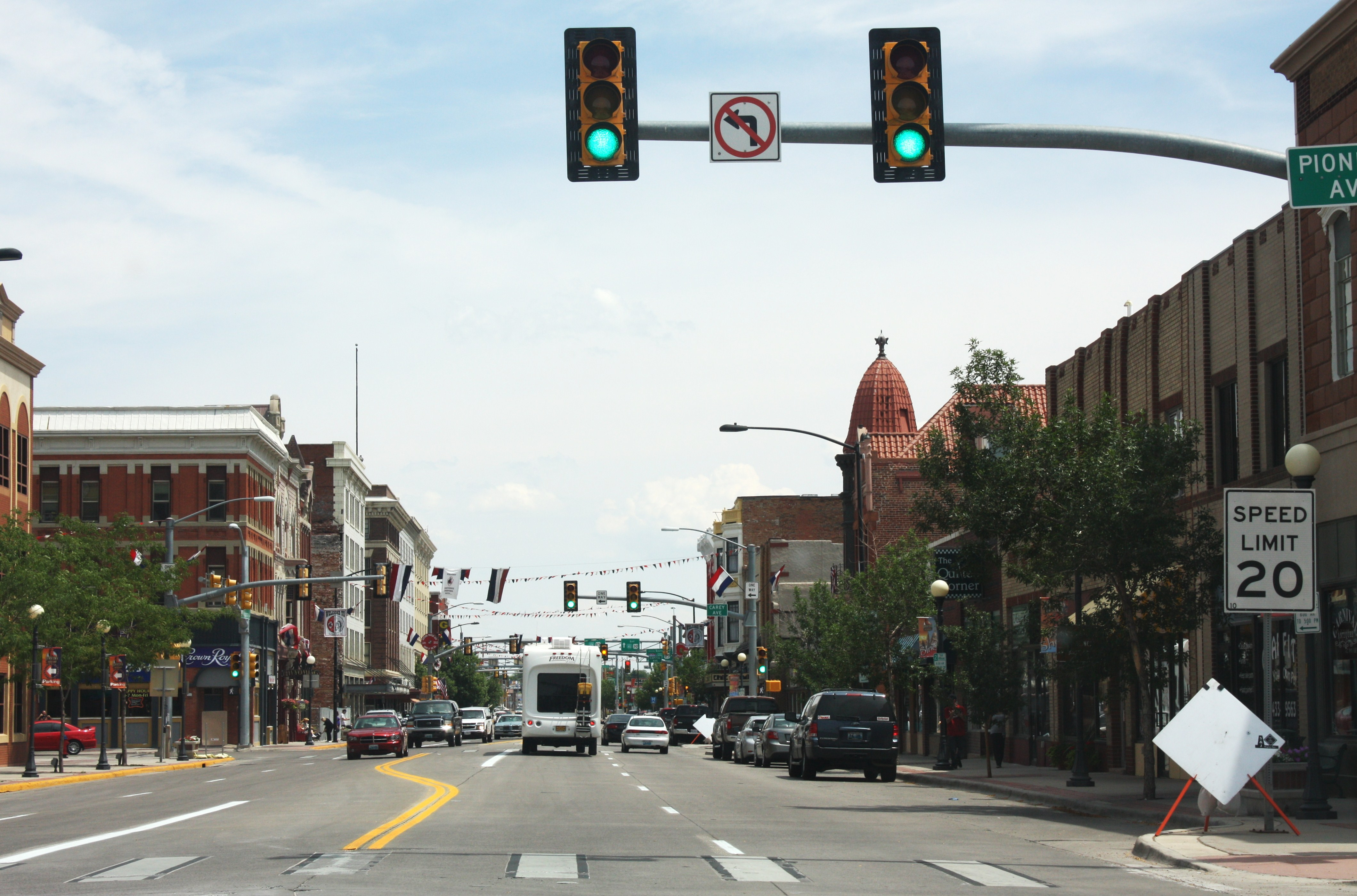 Downtown Cheyenne, Wyoming; looking northeast down W. Lincolnway from intersection with Pioneer Ave.